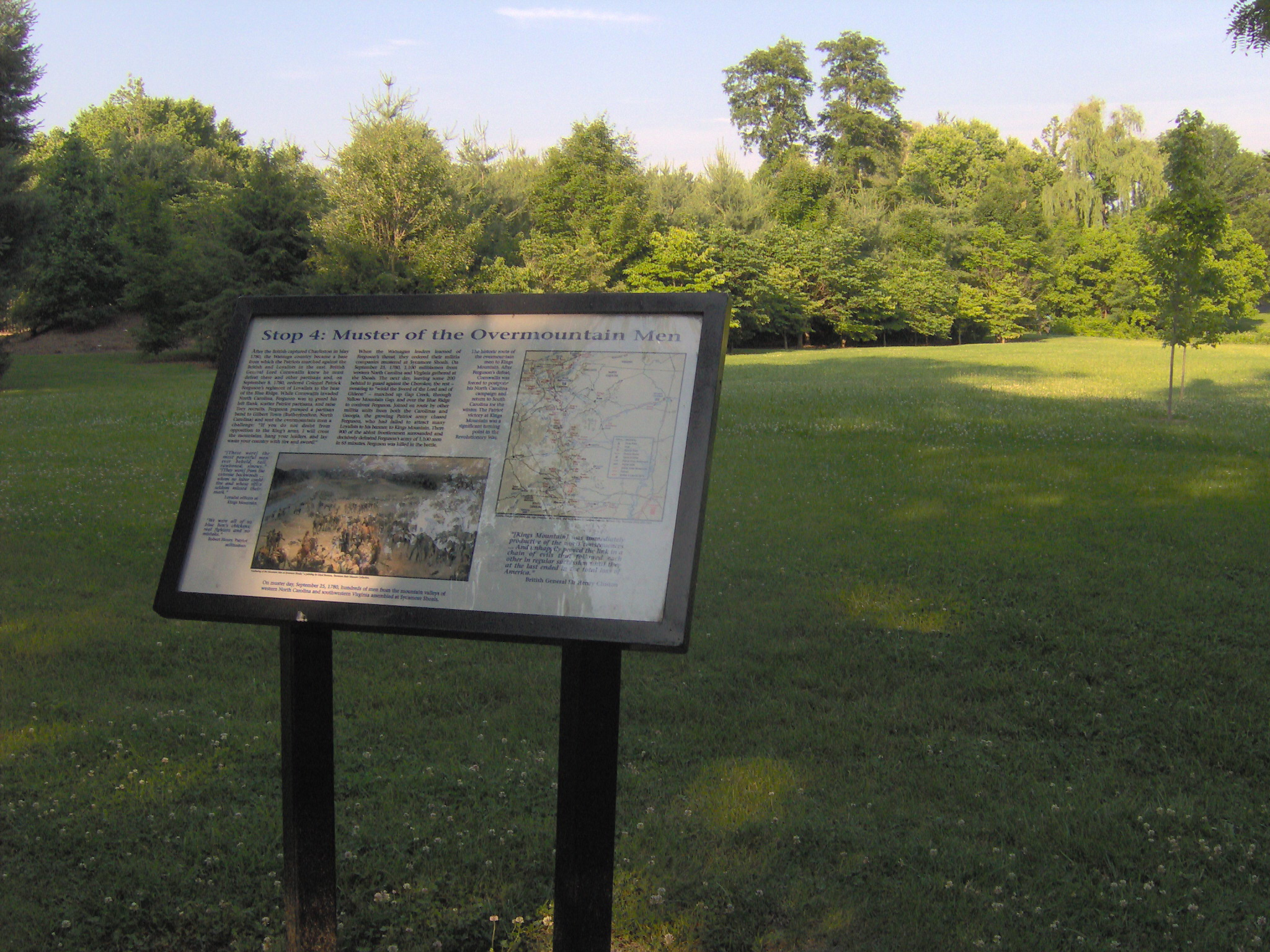 Interpretive sign recalling the muster of the Overmountain Men— the frontier militia that helped defeat British loyalists at Kings Mountain— at the Sycamore Shoals State Historic Park in Elizabethton, Tennessee, USA.